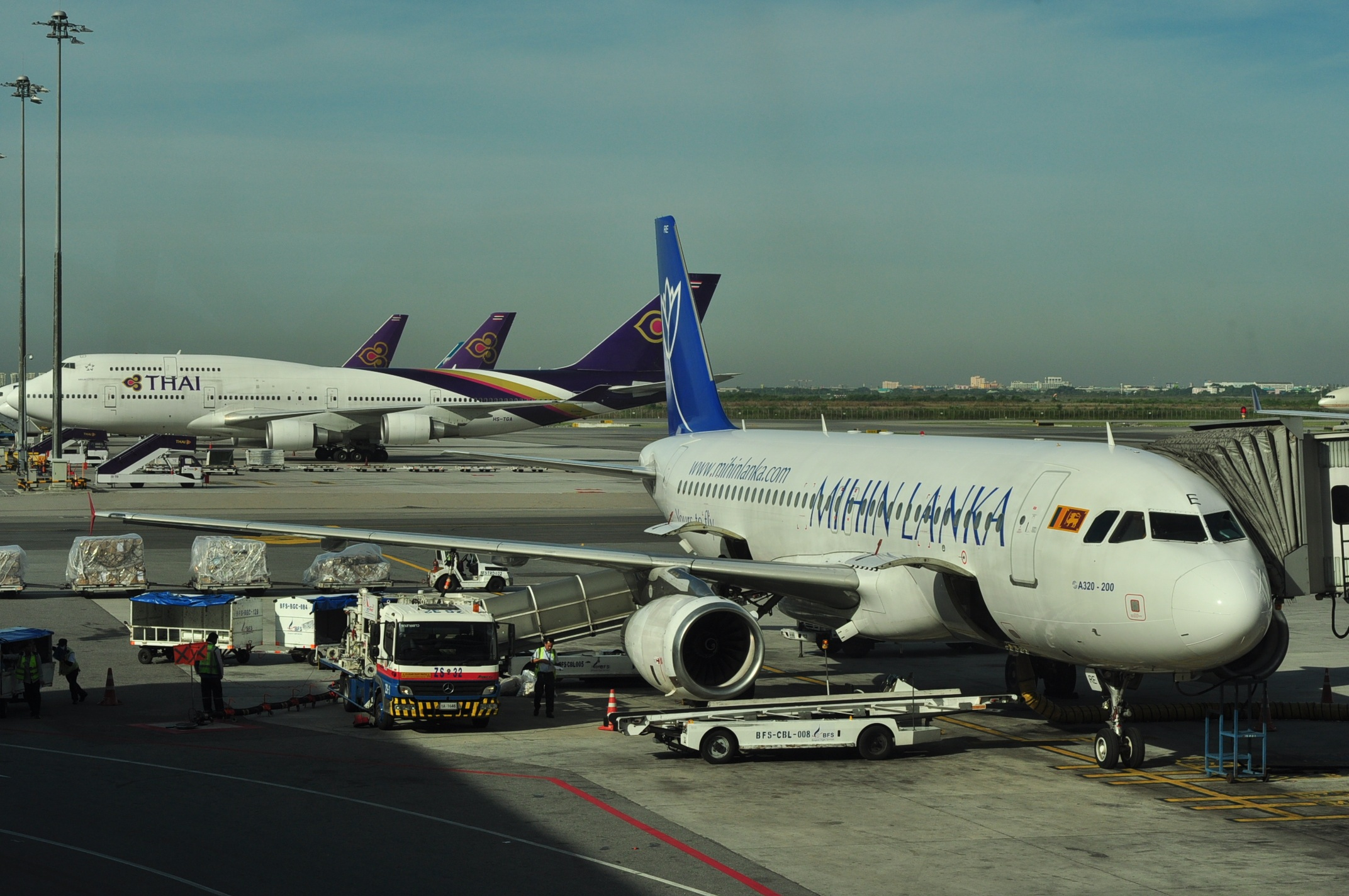 Mihin Lanka aircraft A320-200